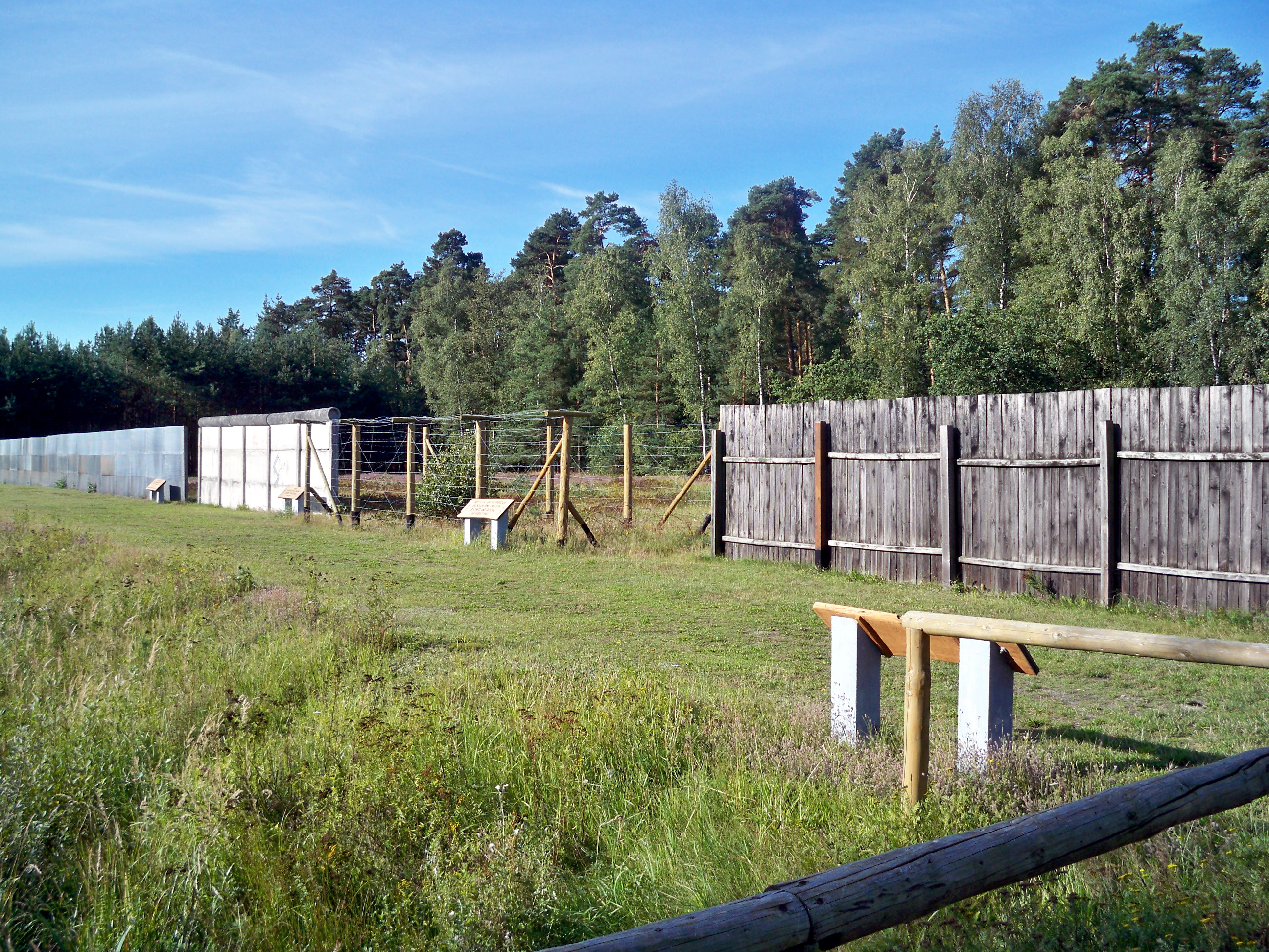 Böckwitz, Saxony-Anhalt, former border fences and walls